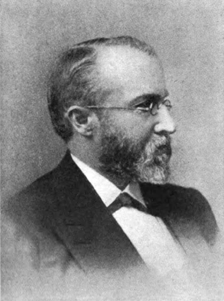 Black and white portrait photograph of journalist and banker George Schneider.